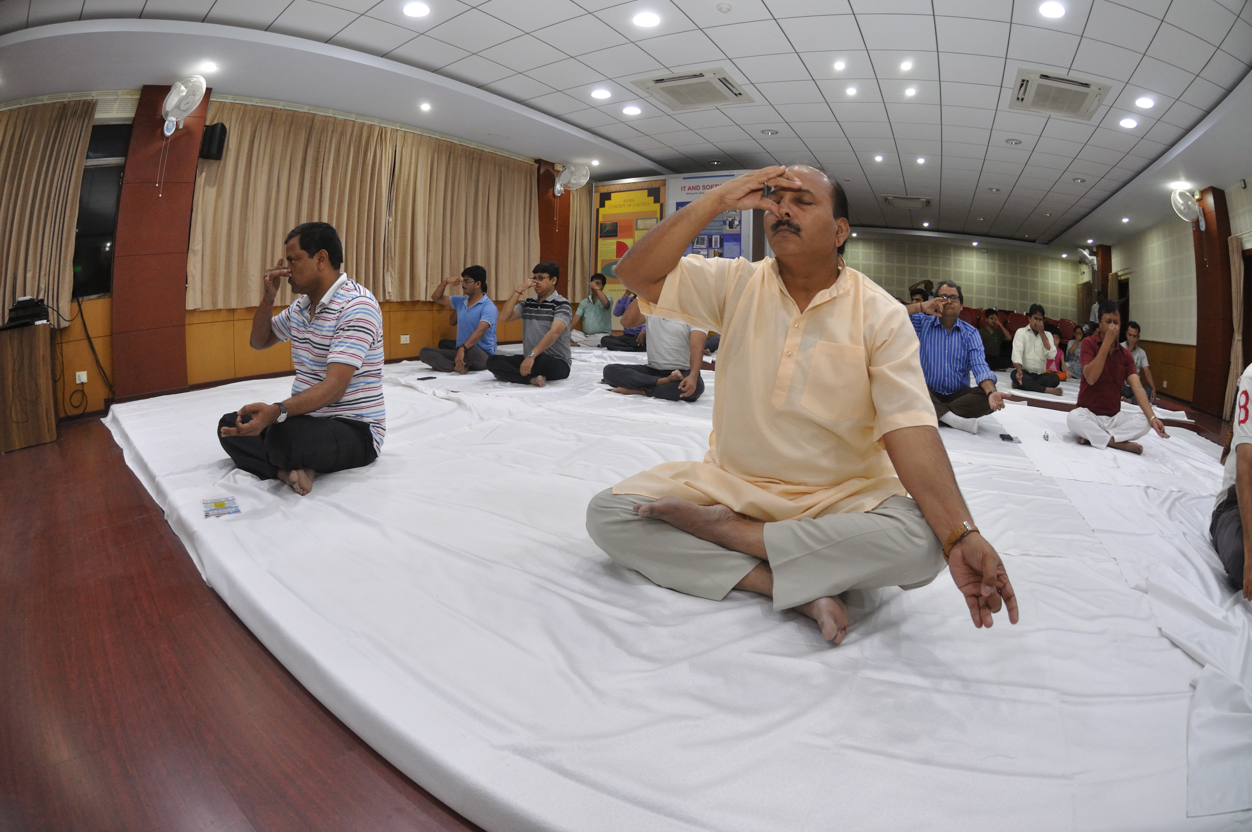 The ‘International Day of Yoga’ was celebrated by the National Council of Science Museums (NCSM), Kolkata, under the Ministry of Culture, Govt. of India. About twenty five persons took part at the Yoga programme.